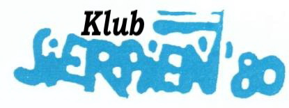 club sierpien 80 logo